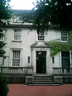 Yokohama Archives of History. Photo taken by uploader in Yokohama, Japan